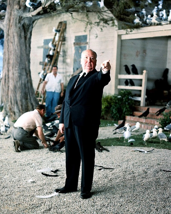 Alfred Hitchcock Publicity Photo of film The Birds, 1963